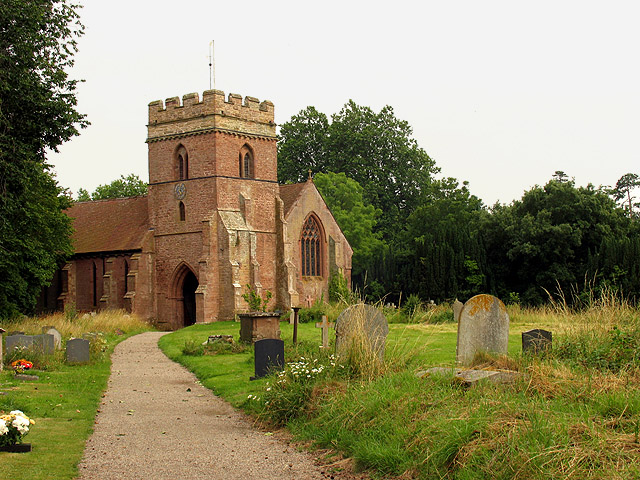 Church of St Mary the Virgin: Bromfield. This church is situated in the north western section of the square.